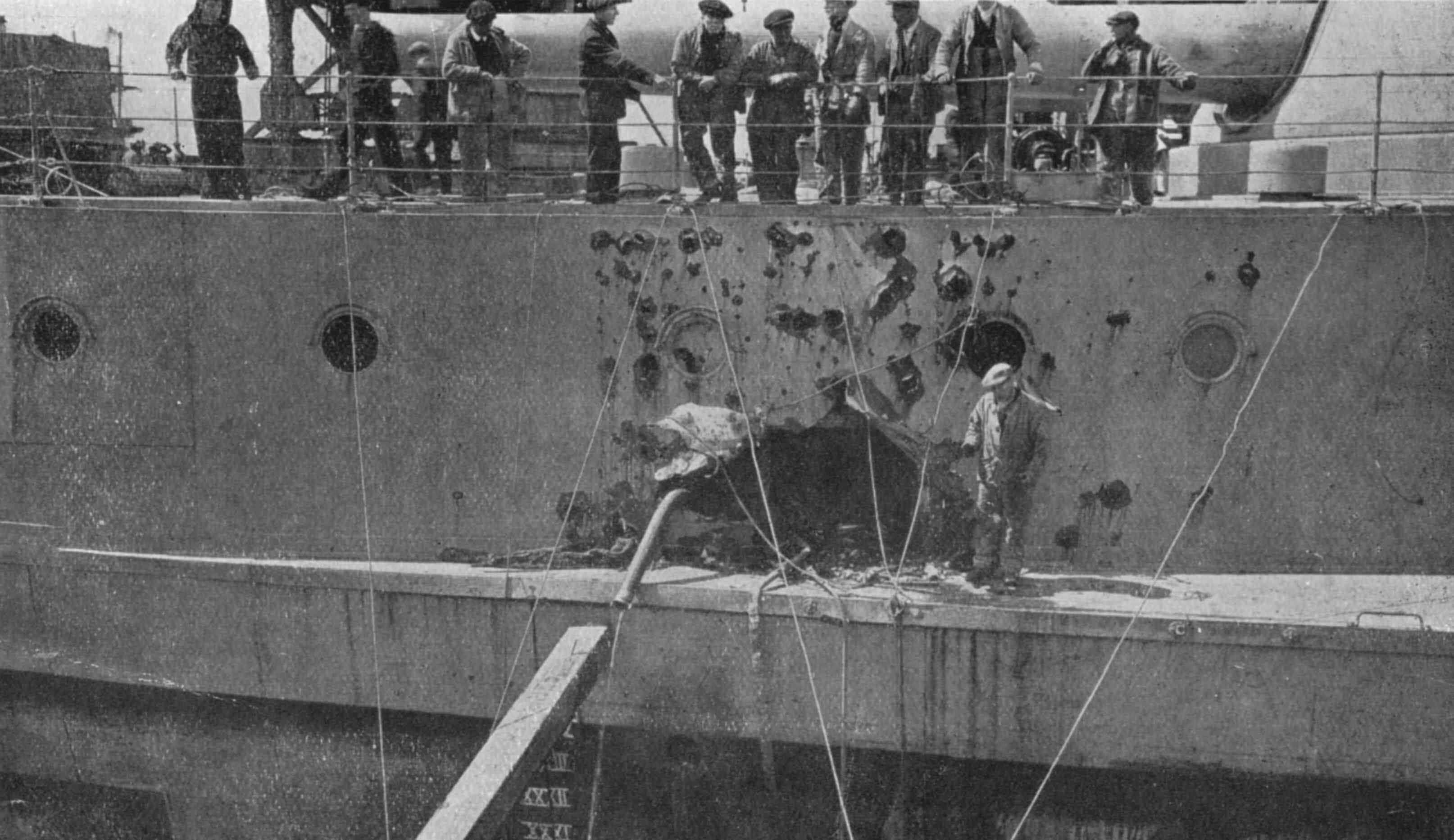 Damage to forward port side of HMS Warspite at the Battle of Jutland, caused by a shell exploding inside the ship.